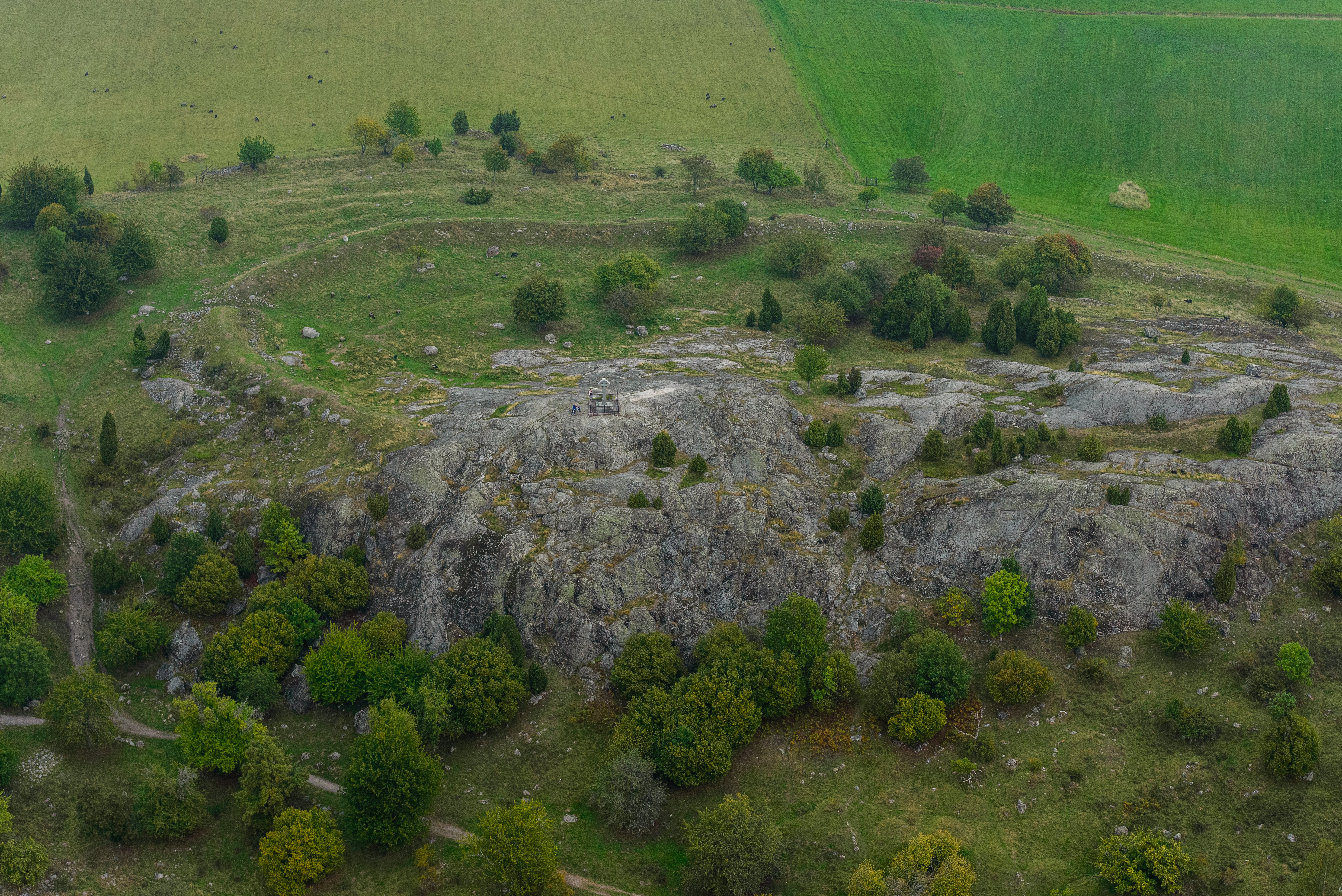 Borgberget med Birkaborgen.